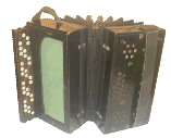 Schrammelharmonika Personal possession. Picture self made 11.11.05